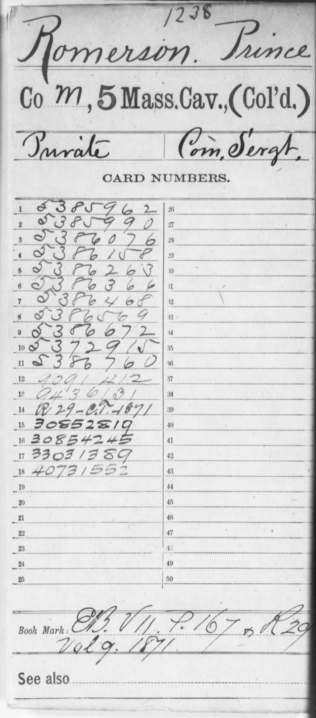 United States Colored Troops Enlistment card of Prince Romerson